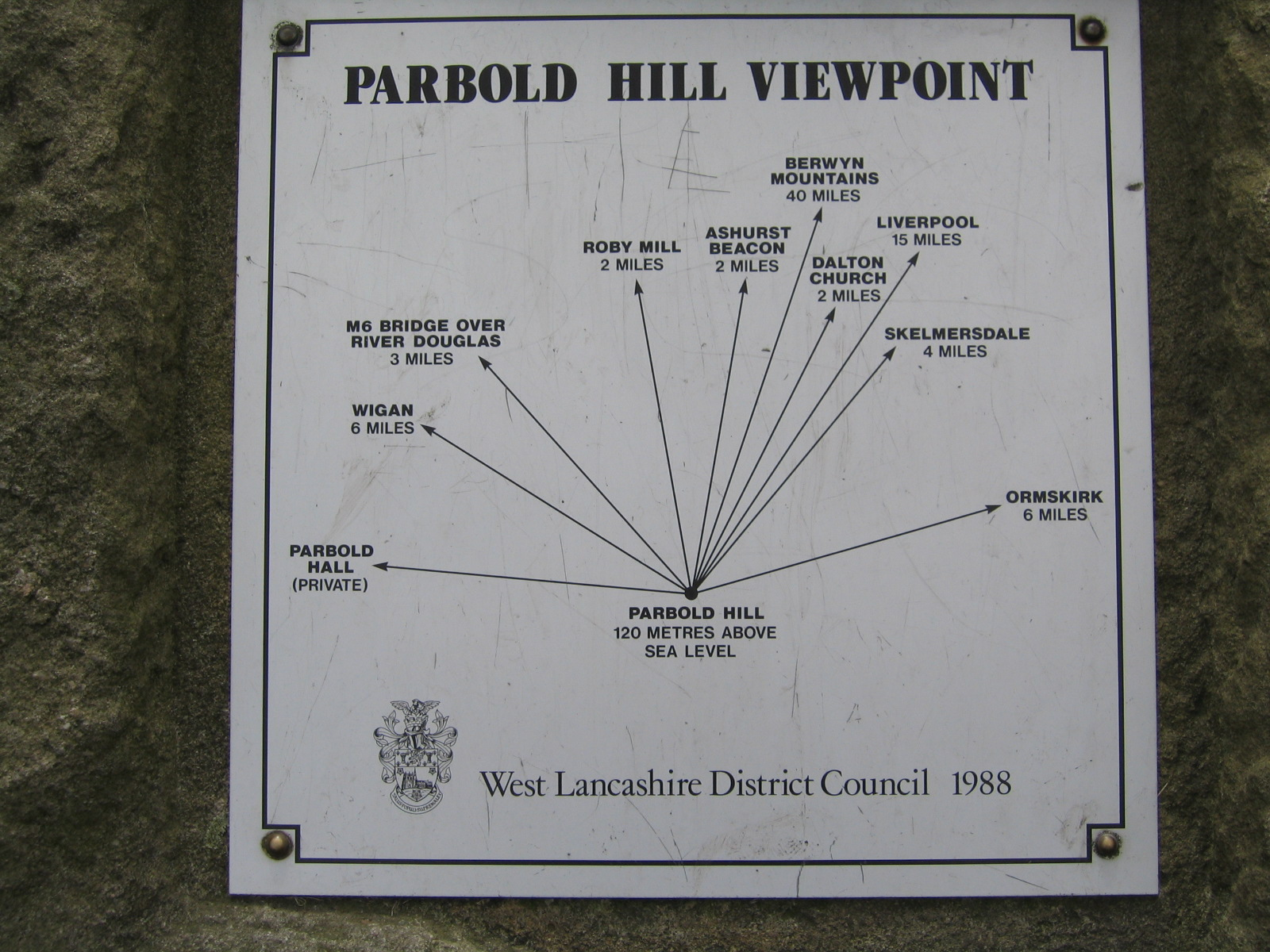 This image was taken by myself on Sunday 28th May 2006. It shows the sign at the top of Parbold Hill which tells tourists the landmarks they can see in the directions shown from the location in which they are standing. It also shows the distances these landmarks are from Parbold Hill.